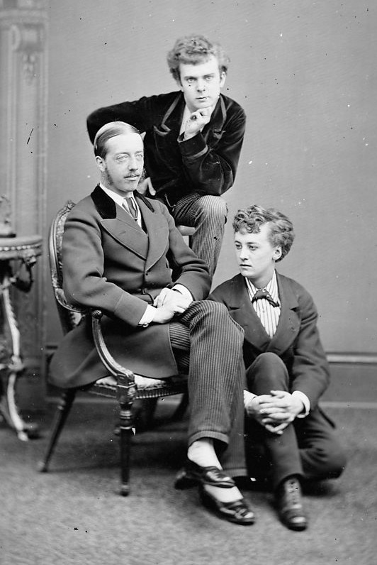 Fanny (standing) and Stella (on the floor) with Lord Arthur Pelham-Clinton, with whom Stella conducted a lengthy relationship.